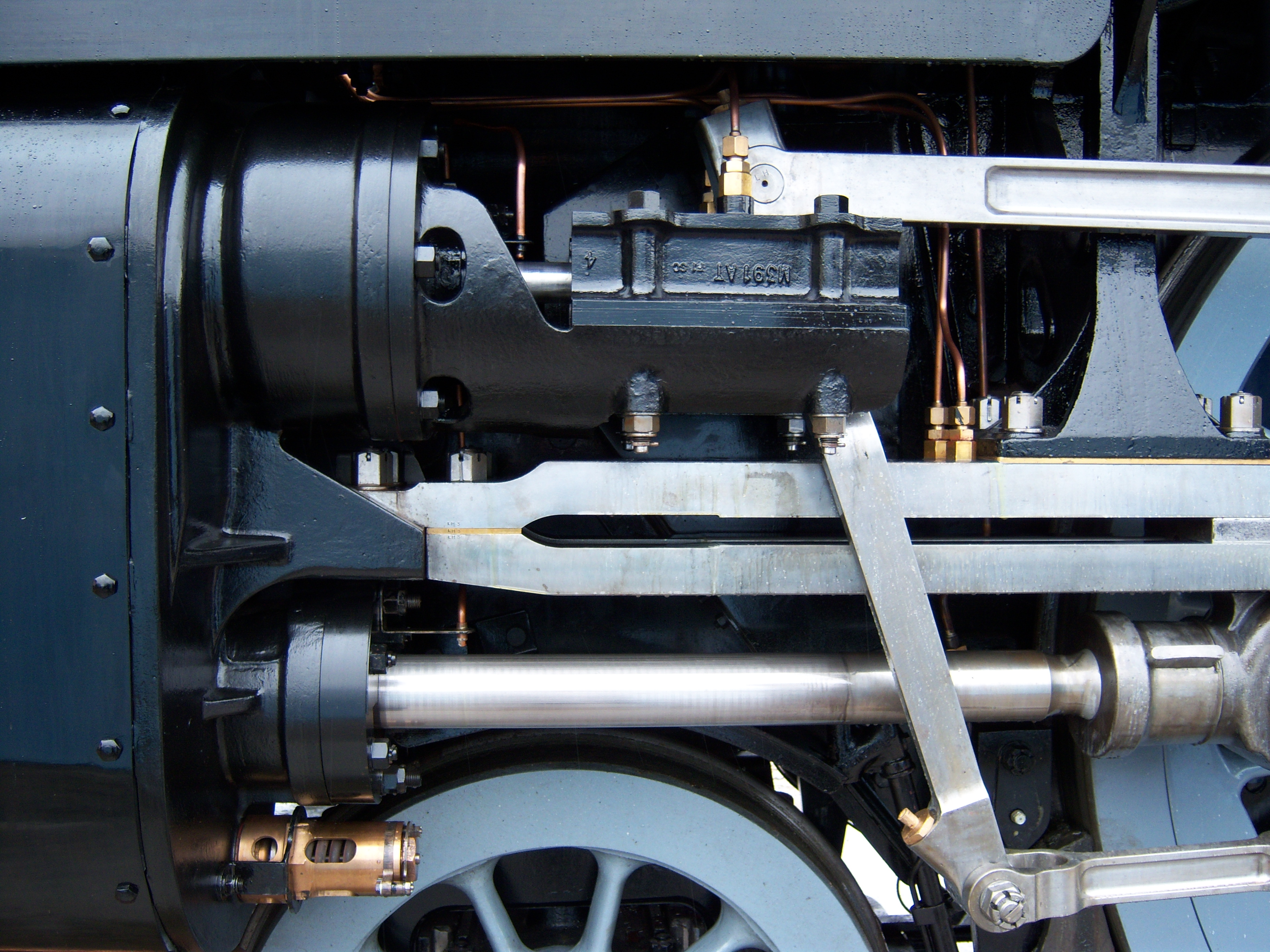 60163 Tornado cylinder rod. Tornado is a brand new steam locomotive, built in Britain to the design of the historic but extinct A1 Peppercorn Class, but to 21st century standards, capable of being the fastest operational main line steam locomotive in Britain. Started as a project in 1991, Tornado moved under her own power for the first time in 2008, and has been tested up to 75 miles per hour. It is the first main line steam locomotive built in Britain for nearly 50 years.